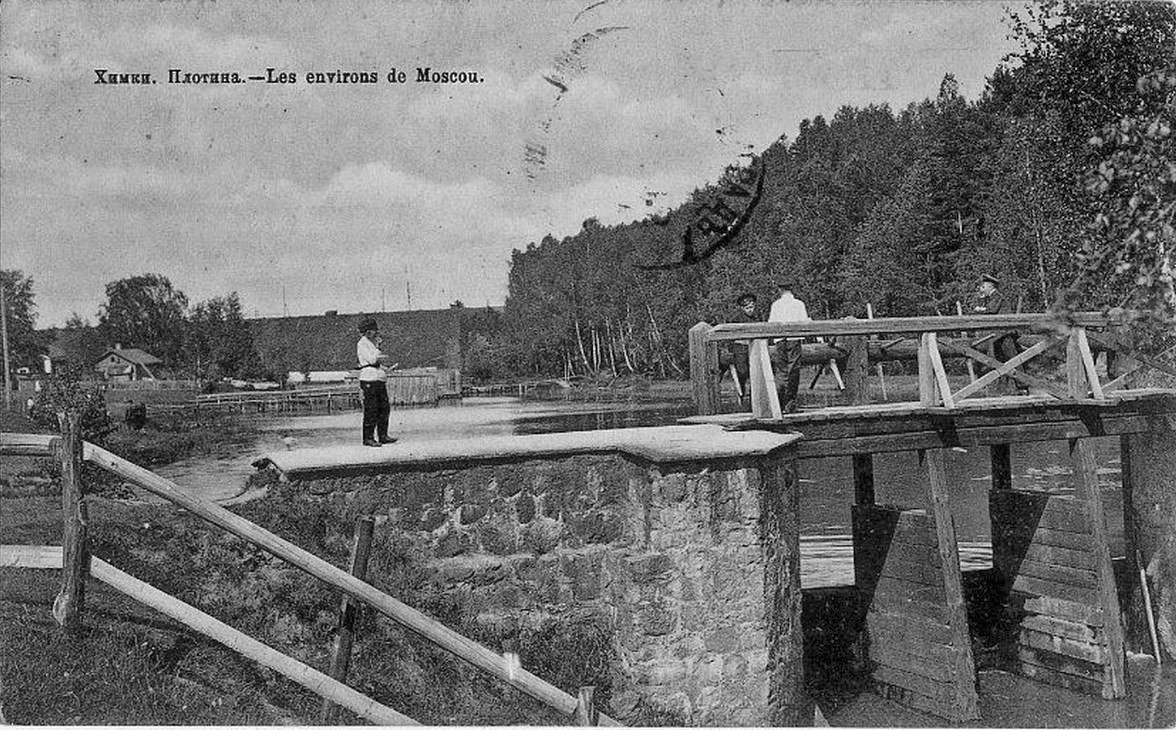 Плотина на р. Химки близ железнодорожной станции Химки. Вода использовалась для заливки тендеров паровозов (1906).